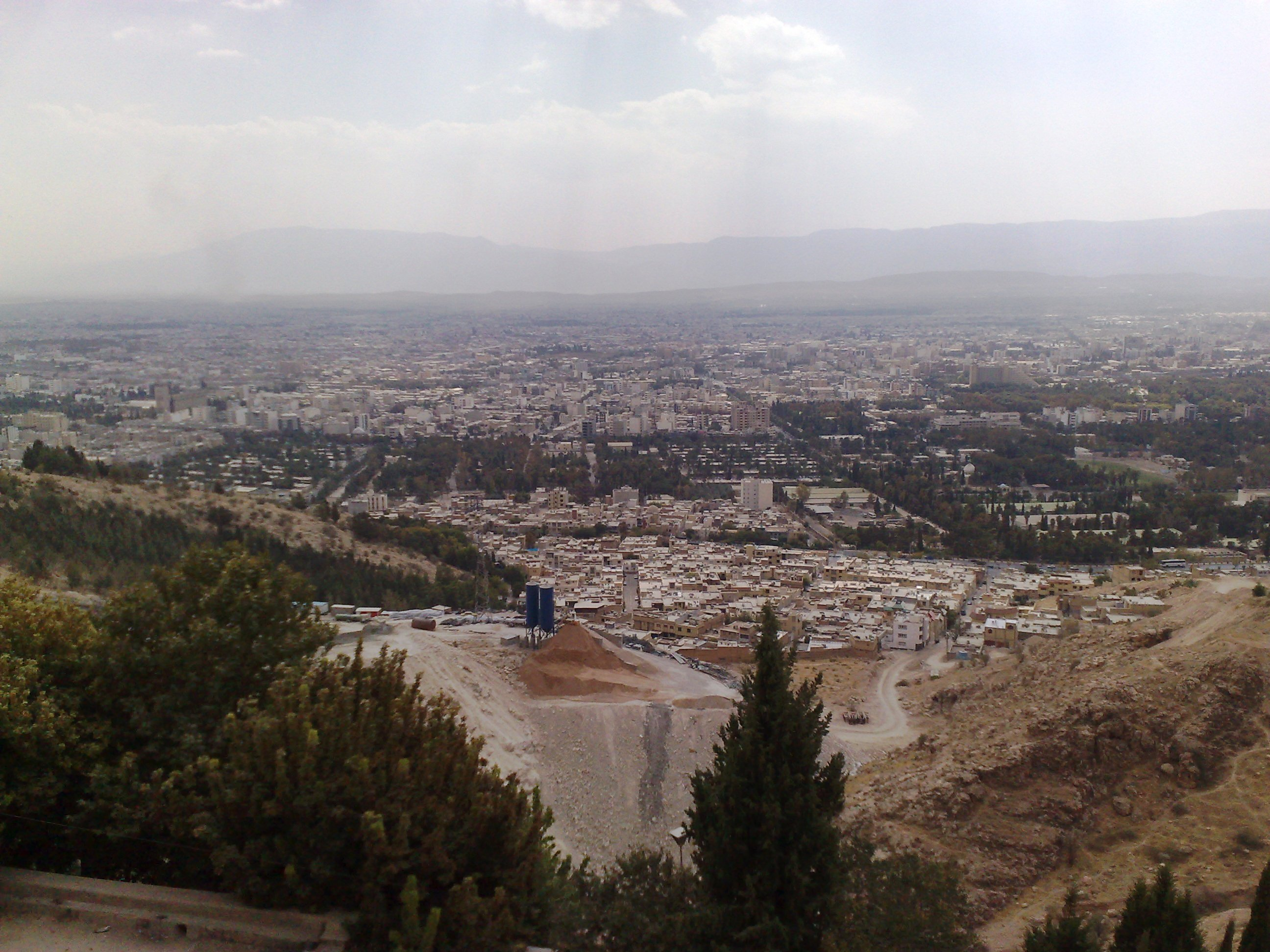 shiraz